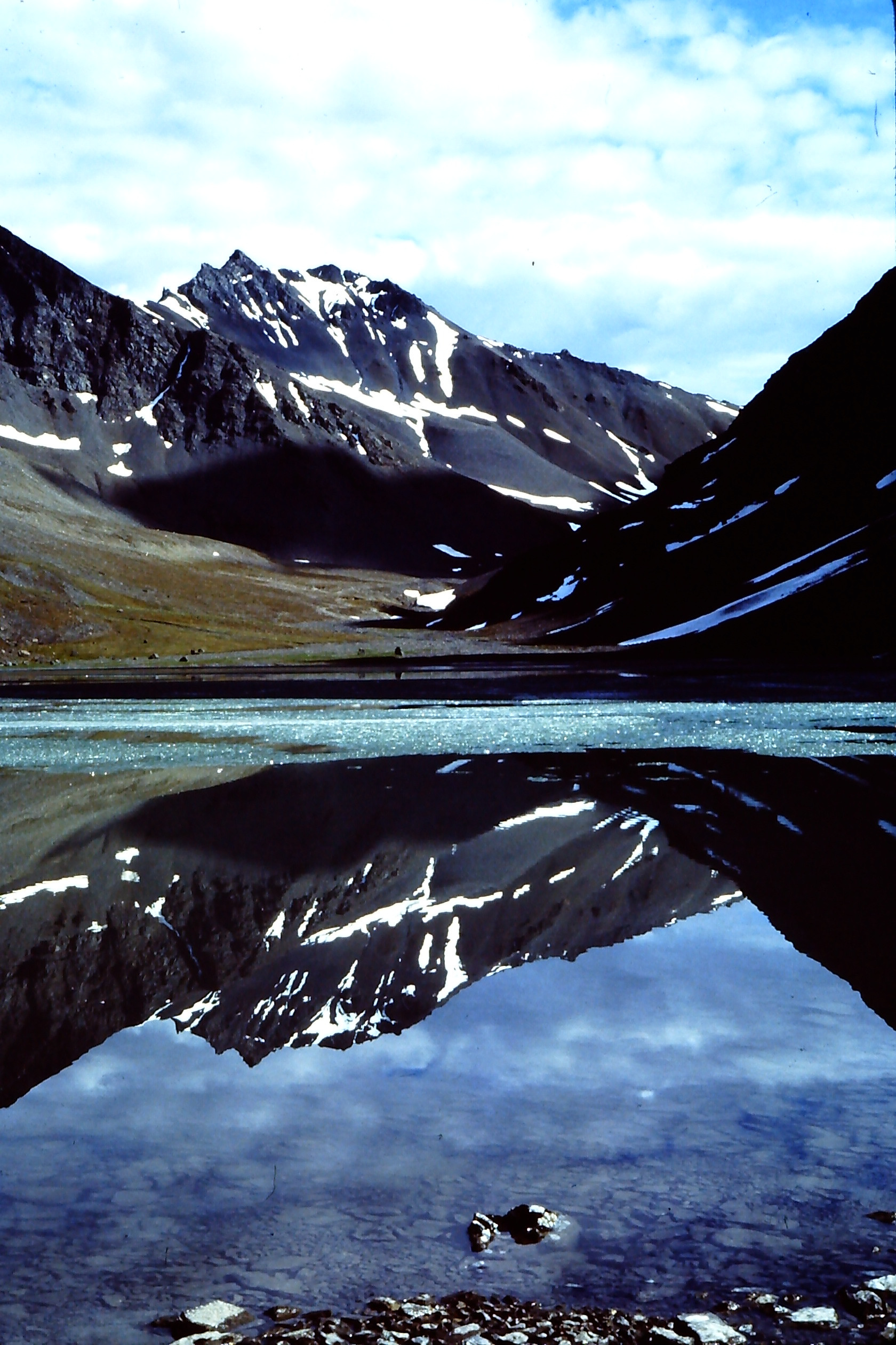 Marshall Lake near the confluence of Ernie Creek and North Fork of the Koyukuk River in the Gates of the Arctic National Park, Alaska.